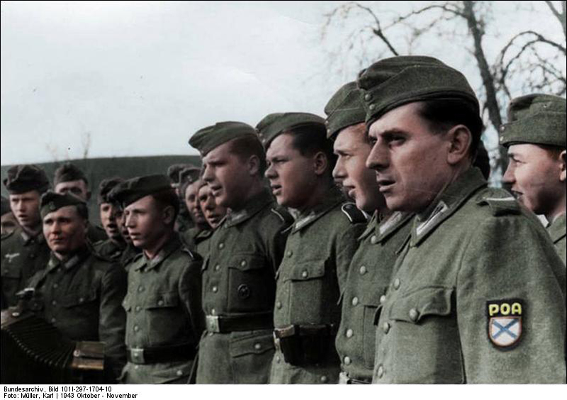 This is a retouched picture, which means that it has been digitally altered from its original version. Modifications: recolored. The original can be viewed here: Bundesarchiv Bild 101I-297-1704-10, Nordfrankreich, Angehörige der Wlassow-Armee.jpg: . Modifications made by Ruffneck88. Im Westen, Freiwillige der ROA Photographer Müller, KarlArchive description Description provided by the archive when the original description is incomplete or wrong. You can help by reporting errors and typos at Commons:Bundesarchiv/Error reports. Im Westen, Belgien / Frankreich.- Sowjetische Freiwillige der Russischen Befreiungsarmee (Wlassow-Armee); PK 698Title Im Westen, Freiwillige der ROA Depicted place NordfrankreichDate 1944date QS:P571,+1944-00-00T00:00:00Z/9Collection German Federal Archives Native nameDas BundesarchivLocationKoblenz (headquarters)Coordinates50° 20′ 32.71″ N, 7° 34′ 21.22″ E Established1946Web page control : Q685753 VIAF: 137346469 ISNI: 0000 0004 0555 2728 LCCN: n92025526 NLA: 36455393 Open Library: OL55798A WorldCat institution QS:P195,Q685753Current location Propagandakompanien der Wehrmacht - Heer und Luftwaffe (Bild 101 I)Accession number Bild 101I-297-1704-10 Source This image was provided to Wikimedia Commons by the German Federal Archive (Deutsches Bundesarchiv) as part of a cooperation project. The German Federal Archive guarantees an authentic representation only using the originals (negative and/or positive), resp. the digitalization of the originals as provided by the Digital Image Archive.